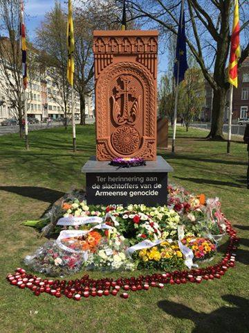 Armenian Genocide Memorial in Mechelen